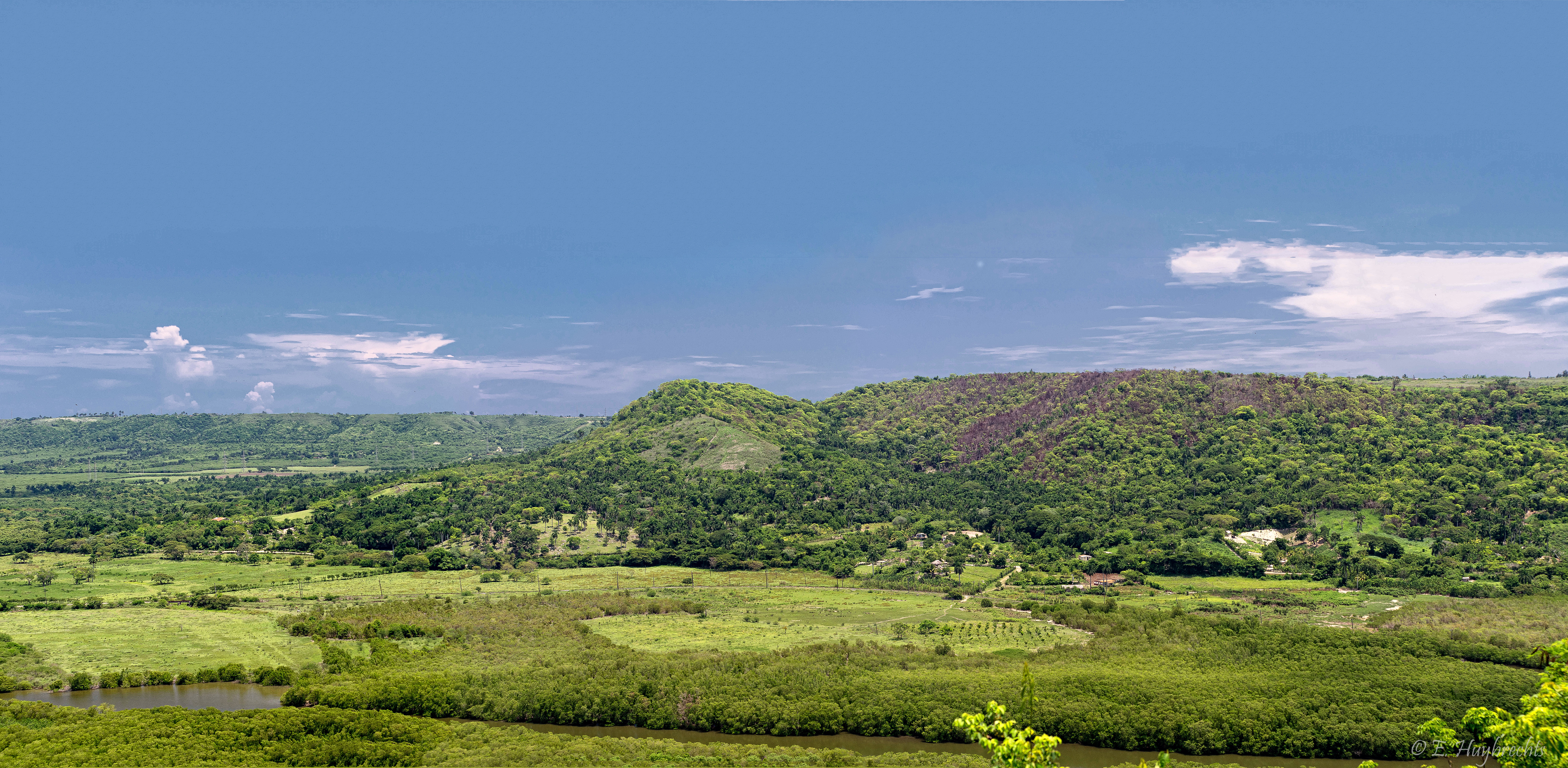 Stitched Panorama of the Yumurí Valley, with the Rio Yumuri, in Matanzas Province, northern Cuba.